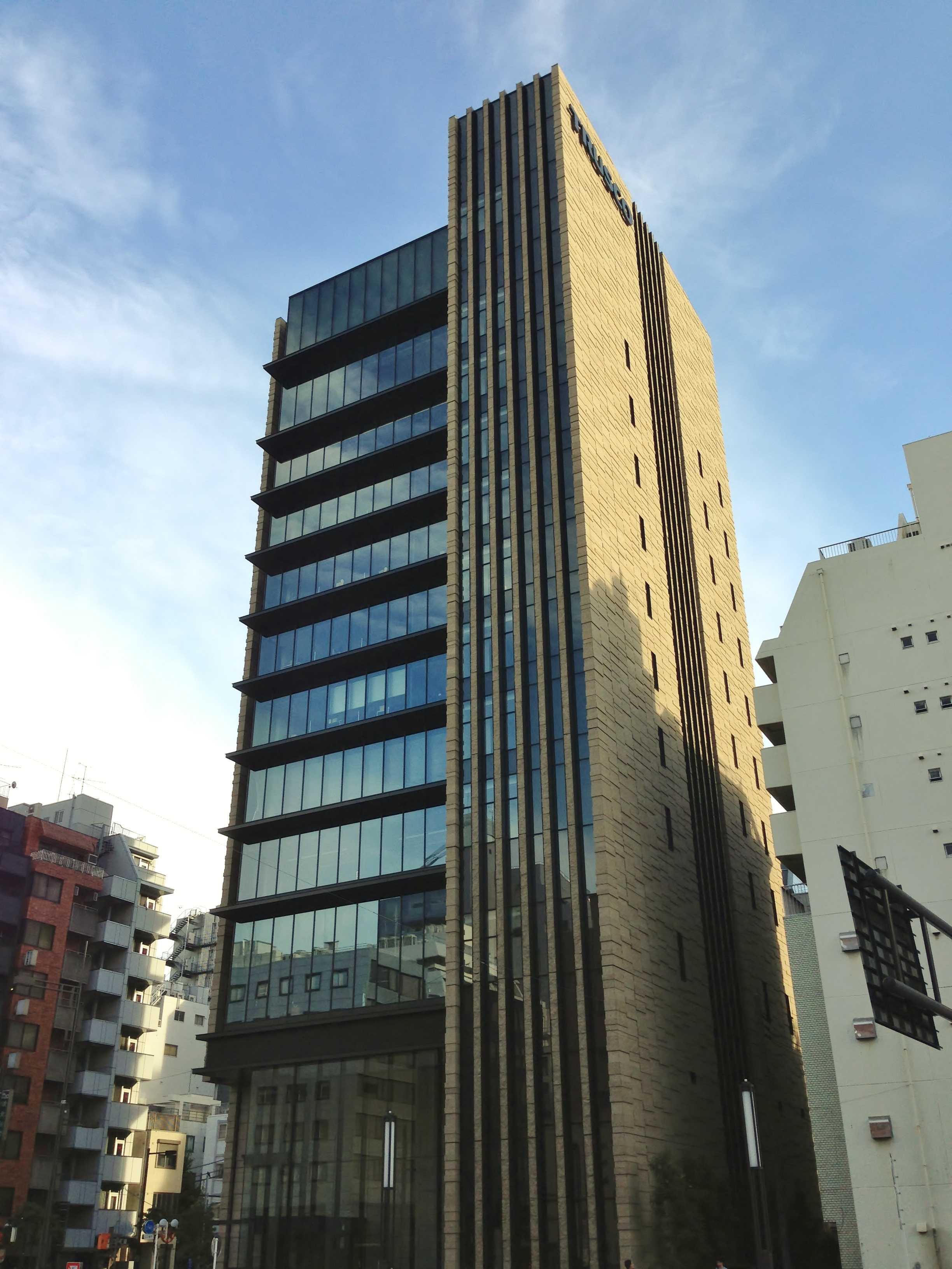 Trusco Fiorito Bild., Tokyo Head Office of Trusco Nakayama Corporation